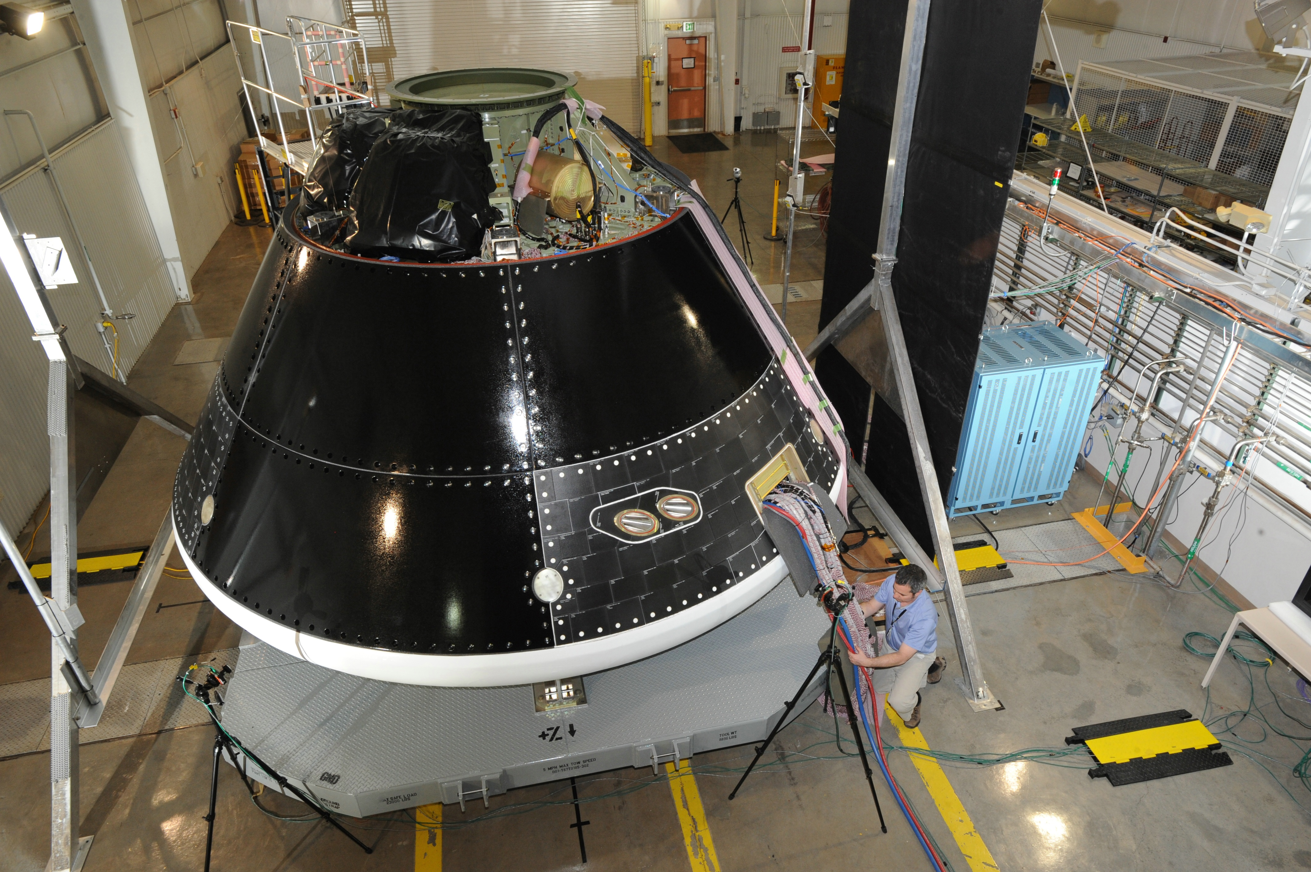 The Crew Module Ground Test Article (GTA) has successfully completed the Pressure Influence Coefficient testing at the Lockheed Martin facility in Denver, Colo. The test is performed to identify potential weaknesses in the integrated Crew Module GTA structure under 10 psi of pressure. Initial results show that the structure performed as expected and all test objectives were met.